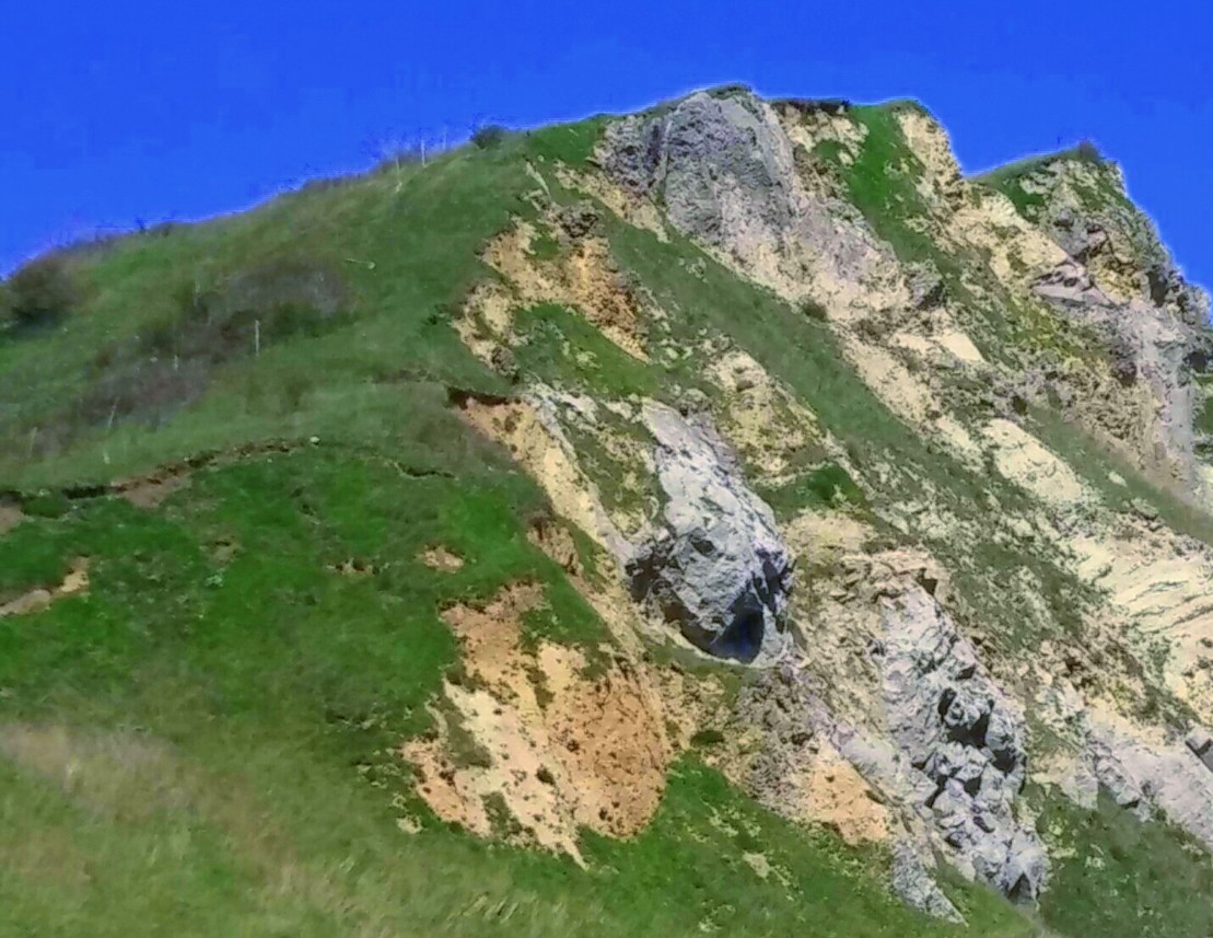 The rock of former Ferrara castle near Savignano Irpino, Italy